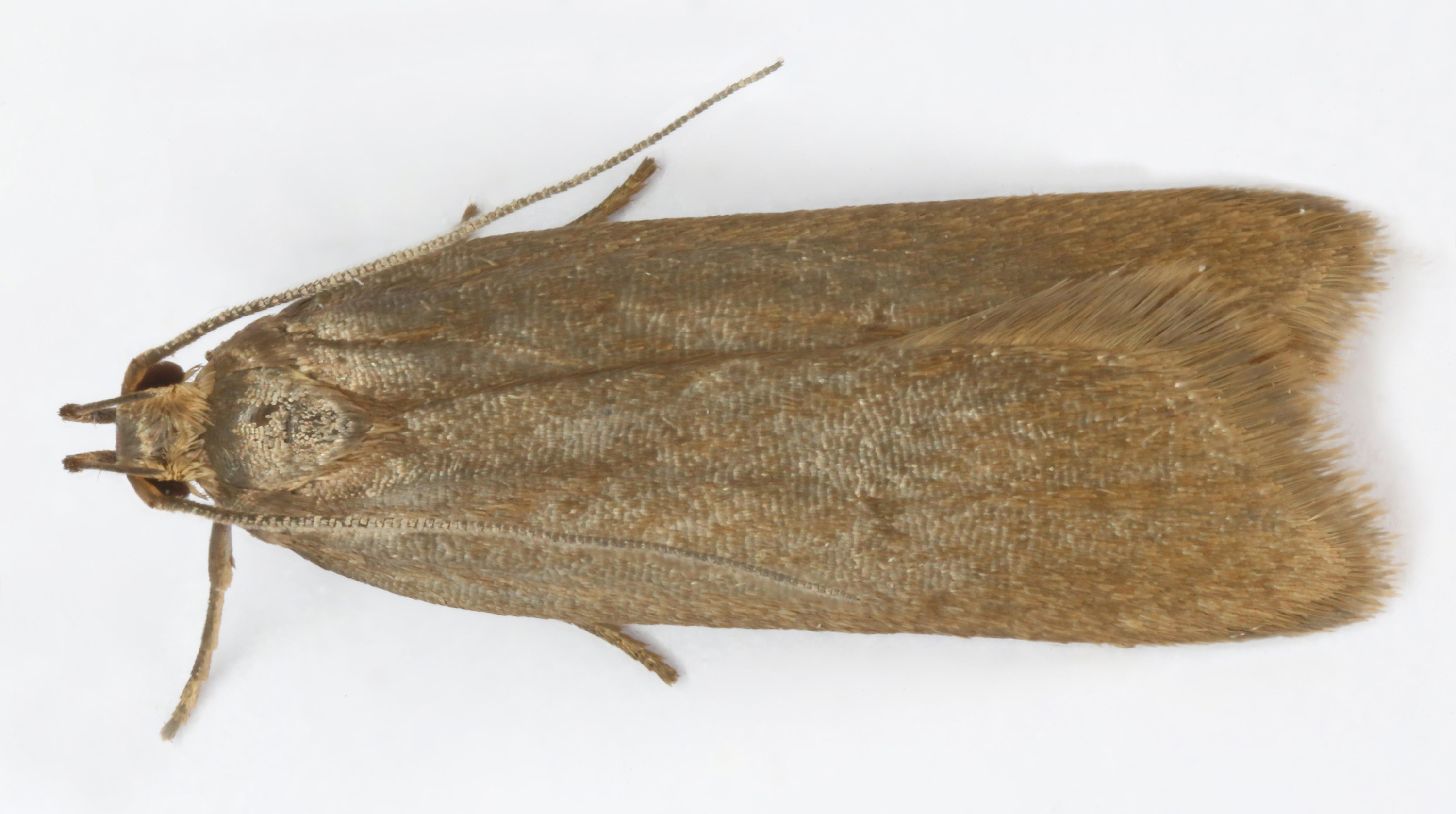 Acompsia cinerella, Dyffryn, North Wales, July 2016